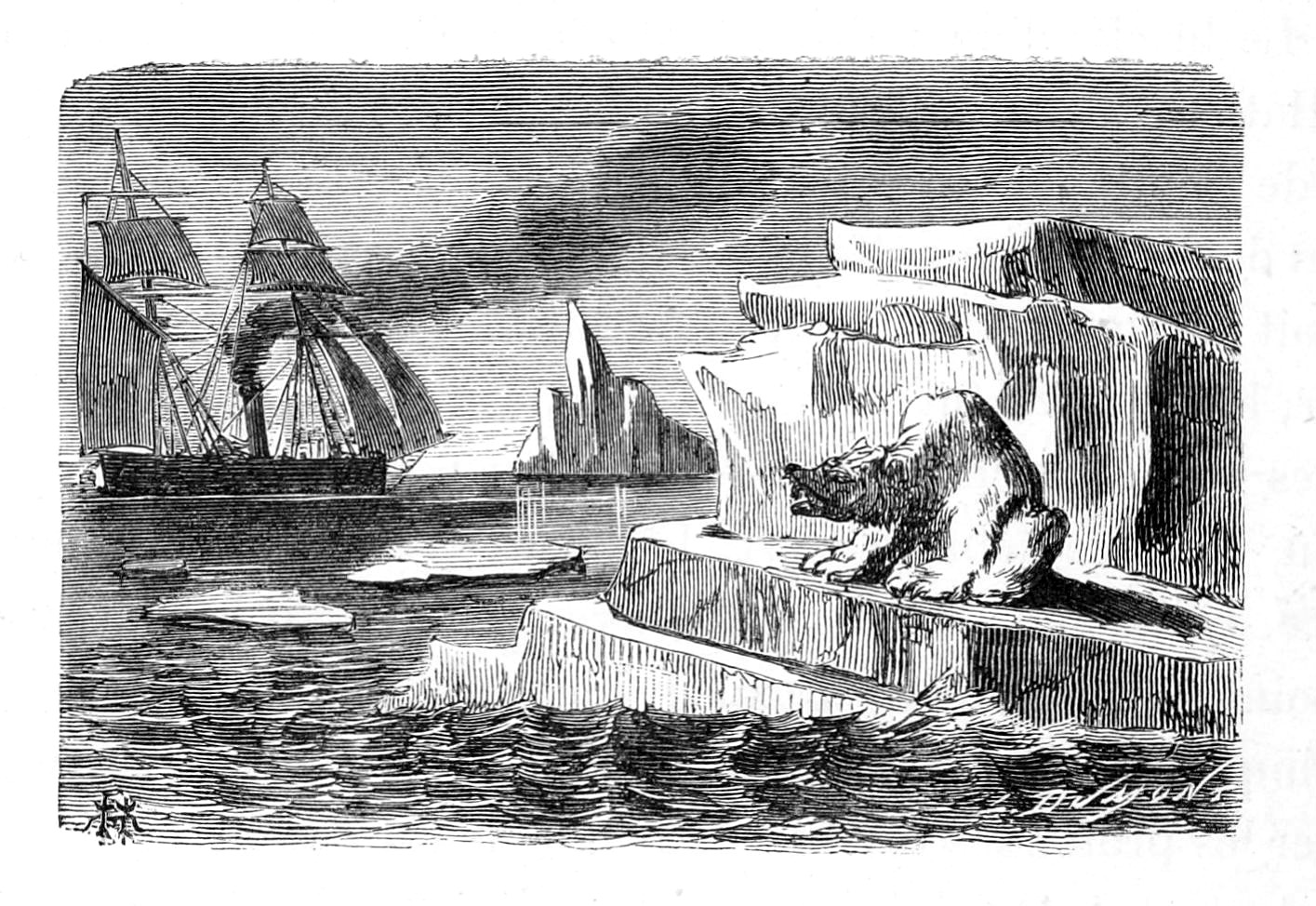 An illustration from Jules Verne's novel "Journeys and Adventures of Captain Hatteras", part I: "The English at the Noth Pole" drawn by Édouard Riou and/or Henri de Montaut.